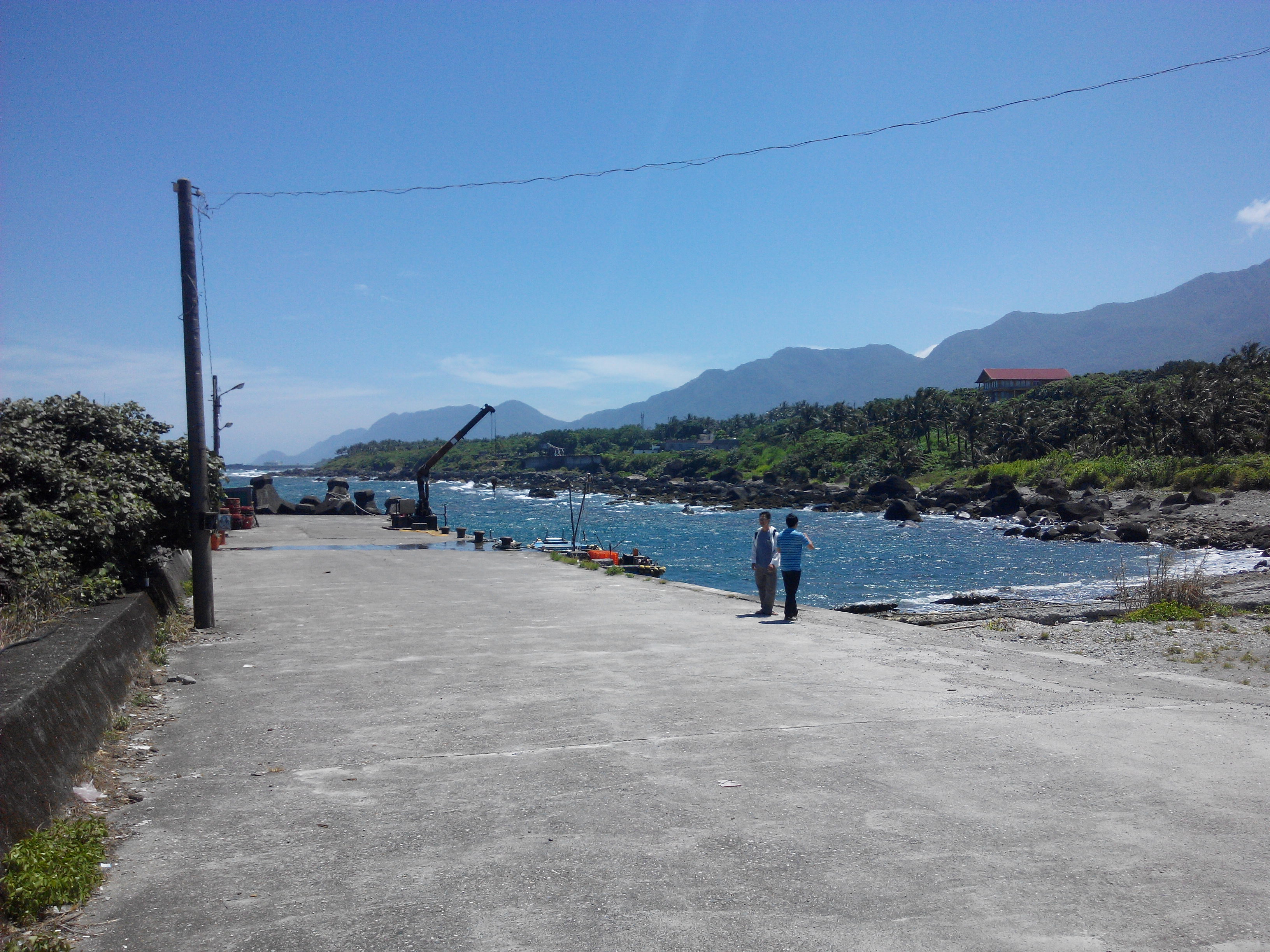 Taiwan Taitung County Chenggong Township Jihui Fish Port